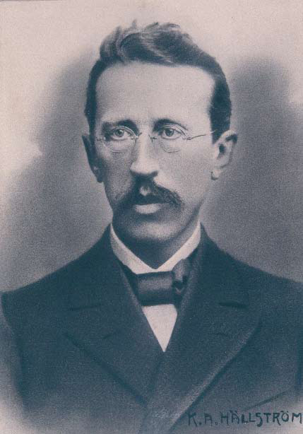 Photograph of the Finnish physician Adolf Hällström (1854–1919).